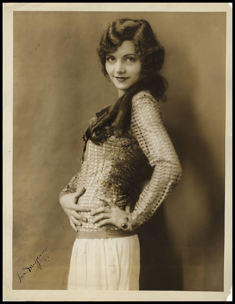 Peggy Shannon at some point between 1923 (the beginning of her career) and 1928 (the death of photographer John de Mirjian).